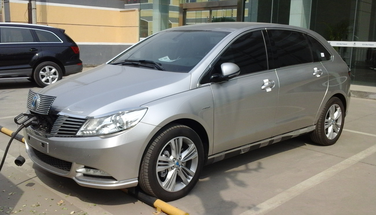 Denza EV photographed in Beijing, China.